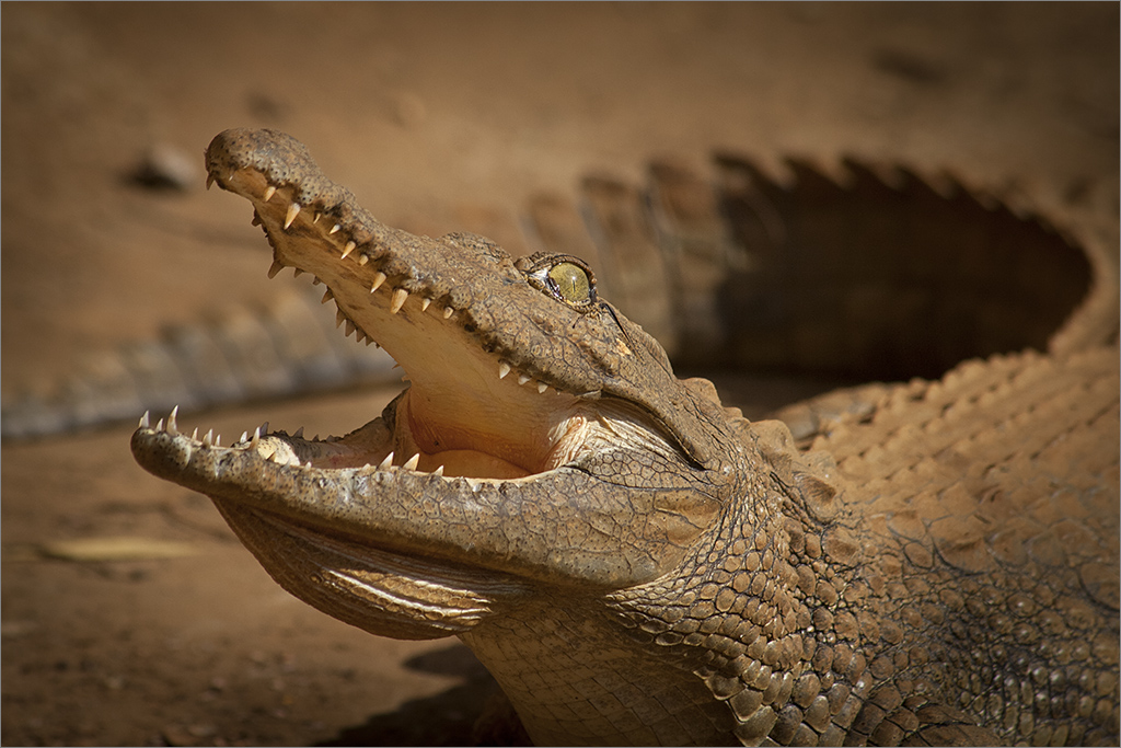 The Nile crocodile or common crocodile (Crocodylus niloticus). Taken on the banks of the Palal river Limpopo Provence South Africa